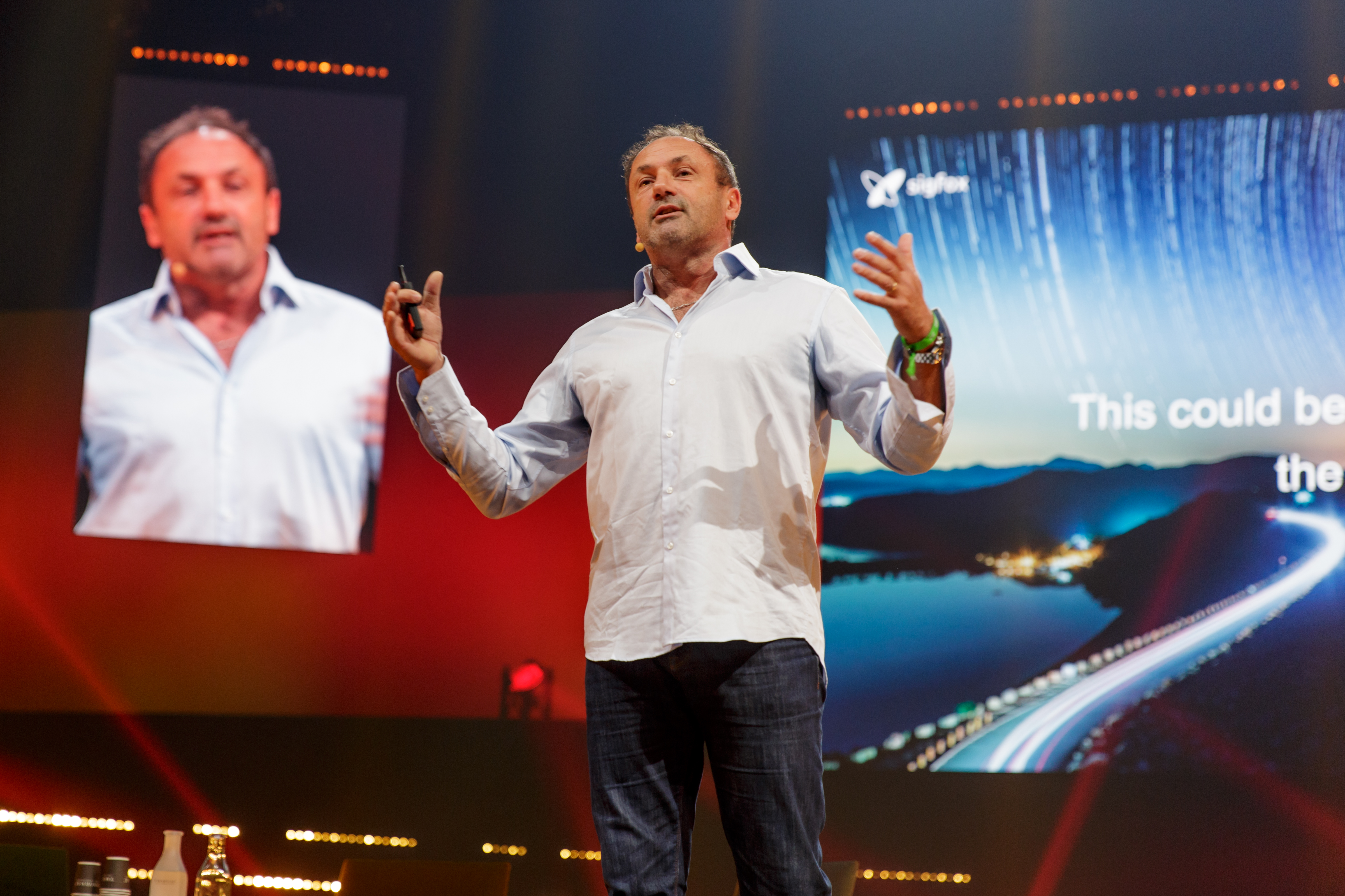 Ludovic Le Moan presenting at Slush 2016: Will IoT be the new to decode the universe?